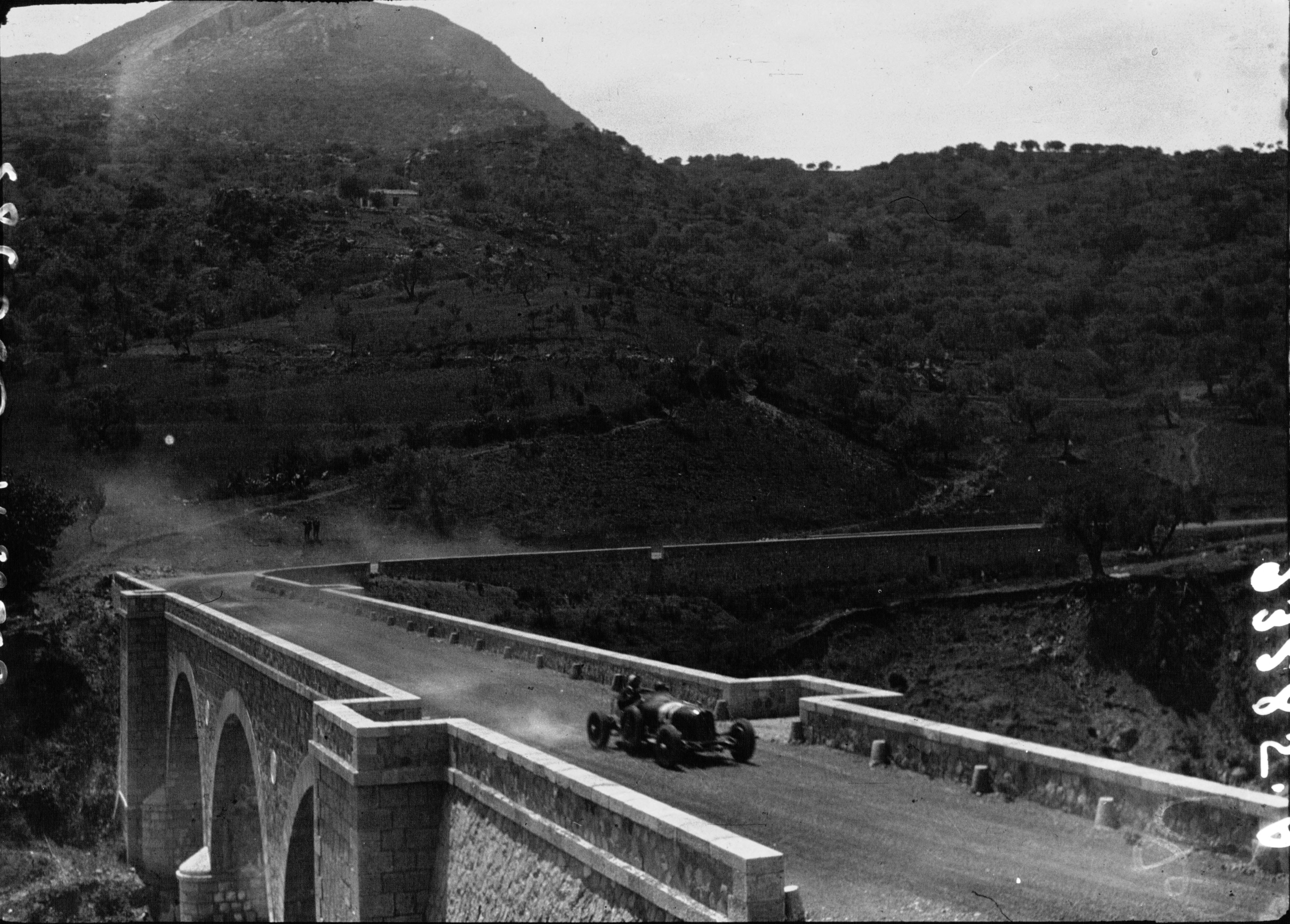 Tazio Nuvolari in his Alfa Romeo at the 1932 Targa Florio.